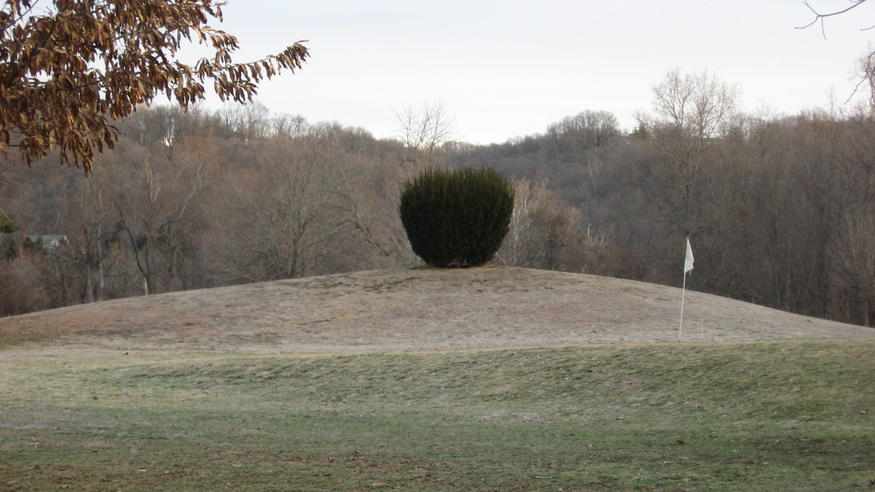 Southwestern side of the Short Woods Park Mound, located in a golf course off Dahlia and Home City Avenues in the Sayler Park neighborhood of Cincinnati, Ohio, United States. Built by the Adena culture, the mound is an archaeological site and listed on the National Register of Historic Places.